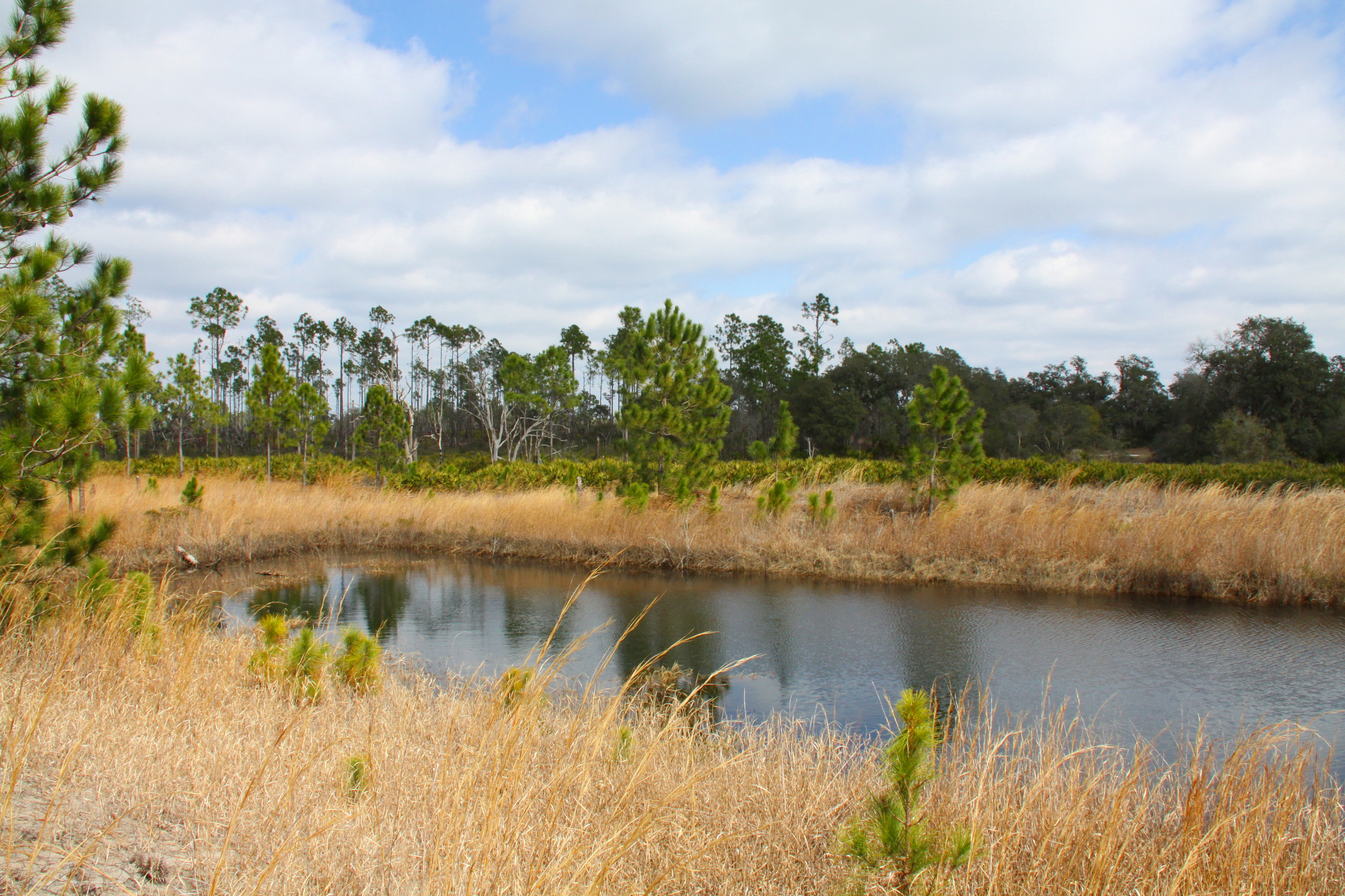 Scrub-Jay Loop Trail Florida Trailwalker Trail Lake Wales Ridge State Forest Polk County, Florida